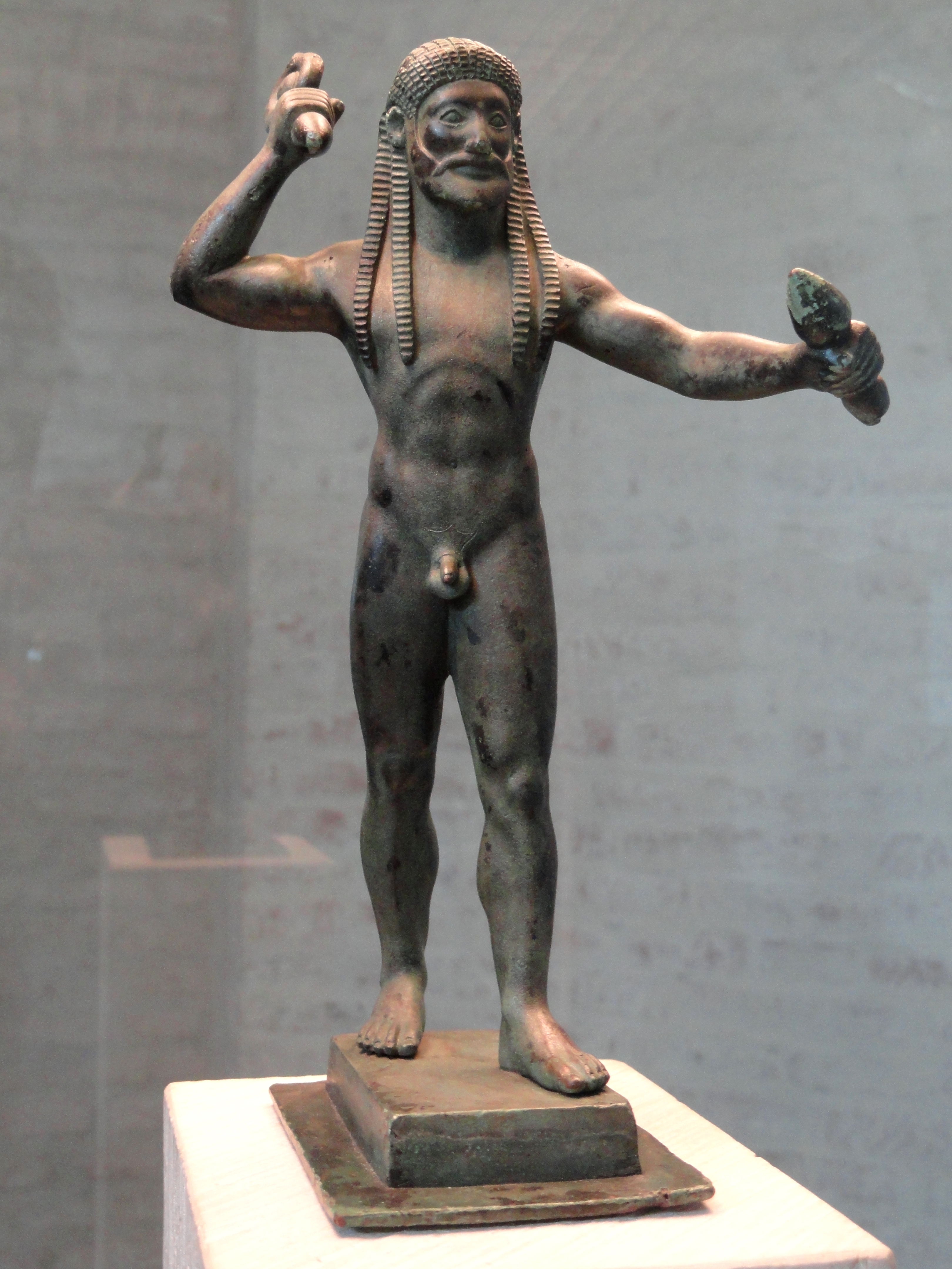 Zeus hurling lightning, archaic bronze statuette.